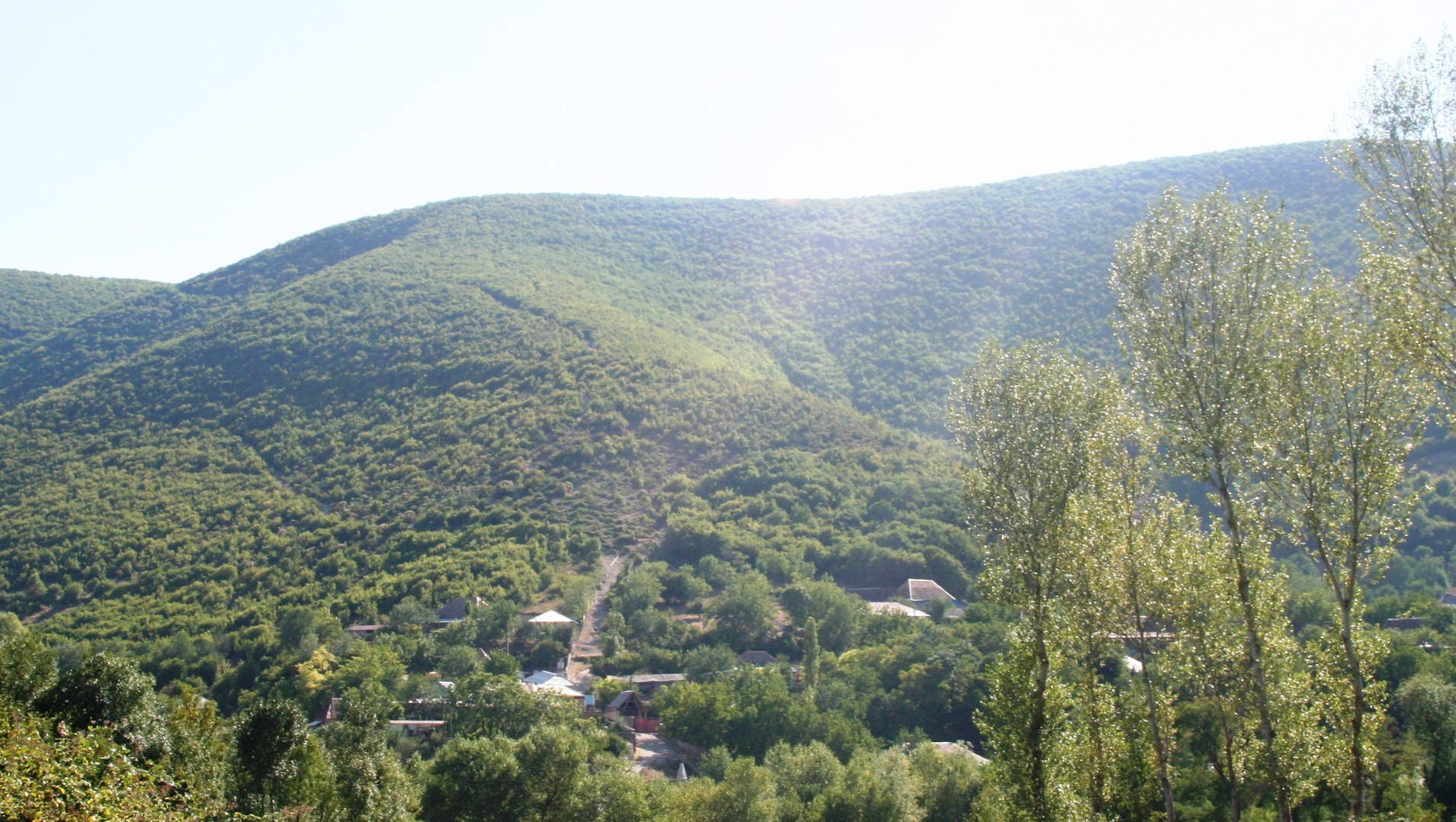 Okhud village in Shaki Rayonç Azerbaijan.